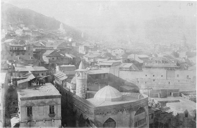 Image Title: Tiflis. Mechet' na maidanie i chast predmiestie goroda Sololaki Alternate Title: Tbilisi: Mosque at Square and part of suburb of Sololaka